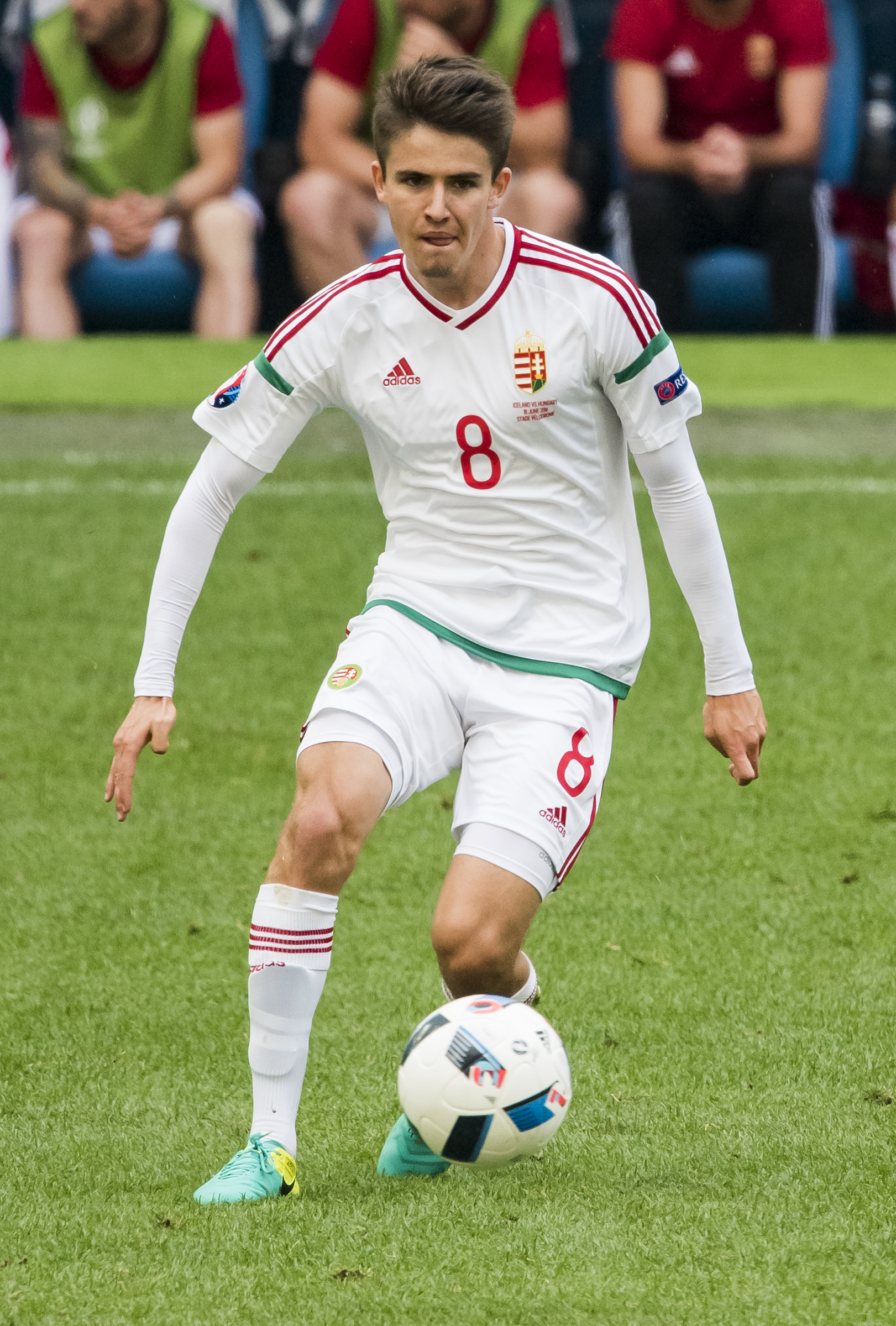 Ádám Nagy playing for Hungary national football team in game against Iceland at Euro 2016